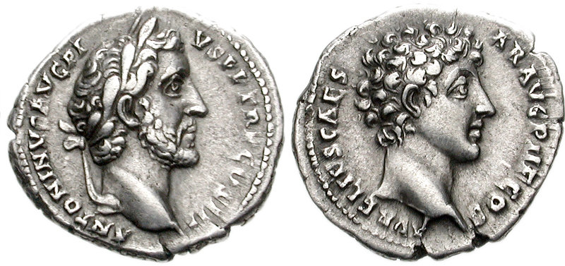 Antoninus Pius, with Marcus Aurelius as Caesar. AD 138-161. AR Denarius (18mm, 3.38 g, 1h). Rome mint. Struck AD 140-144. ANTONINUS AUG PI-US PP TR P COS III, Laureate head of Antoninus Pius right AURELIUS CAES-AR AUG PIUS (?) COS, Bare head of Marcus Aurelius right. RIC III 417a; RSC 15.